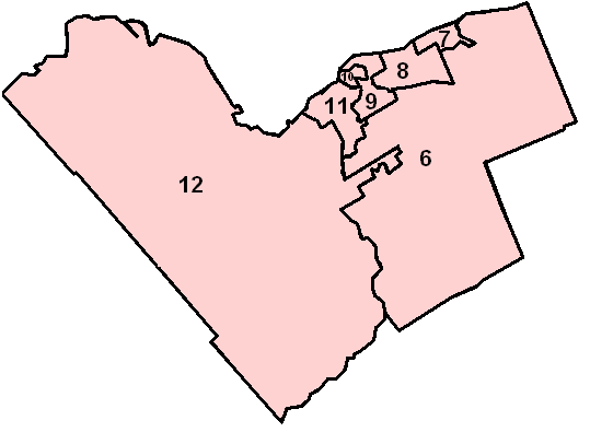 Cepeozones